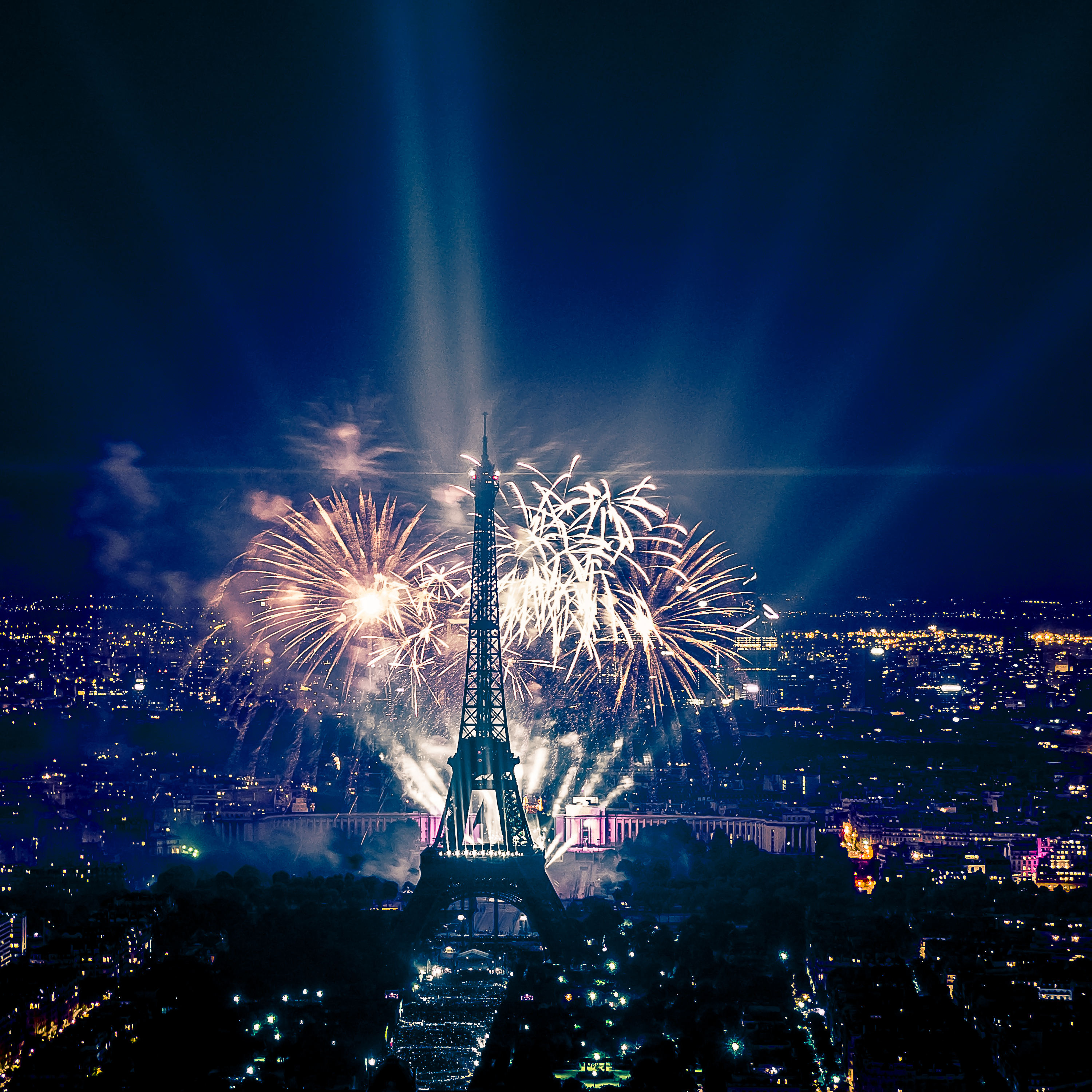 Fireworks on Eiffel Tower as seen from the Montparnasse Tower, July 14, 2013.